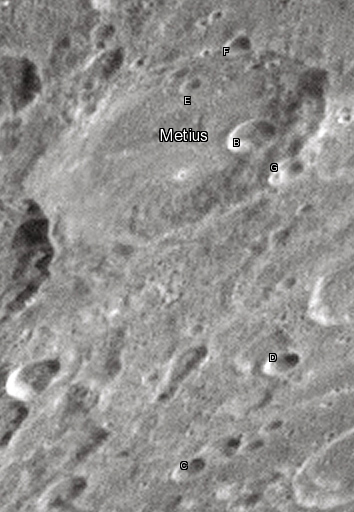 Metius lunar crater as seen from Earth with satellite craters labeled